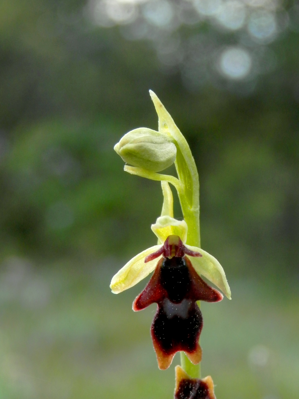 Fly orchid (Ophrys insectifera) on Mount Golo Bardo, Bulgaria